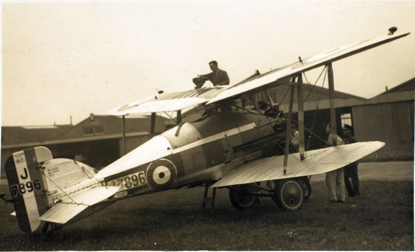 Gloster Gamecock I of Royal Air Force.